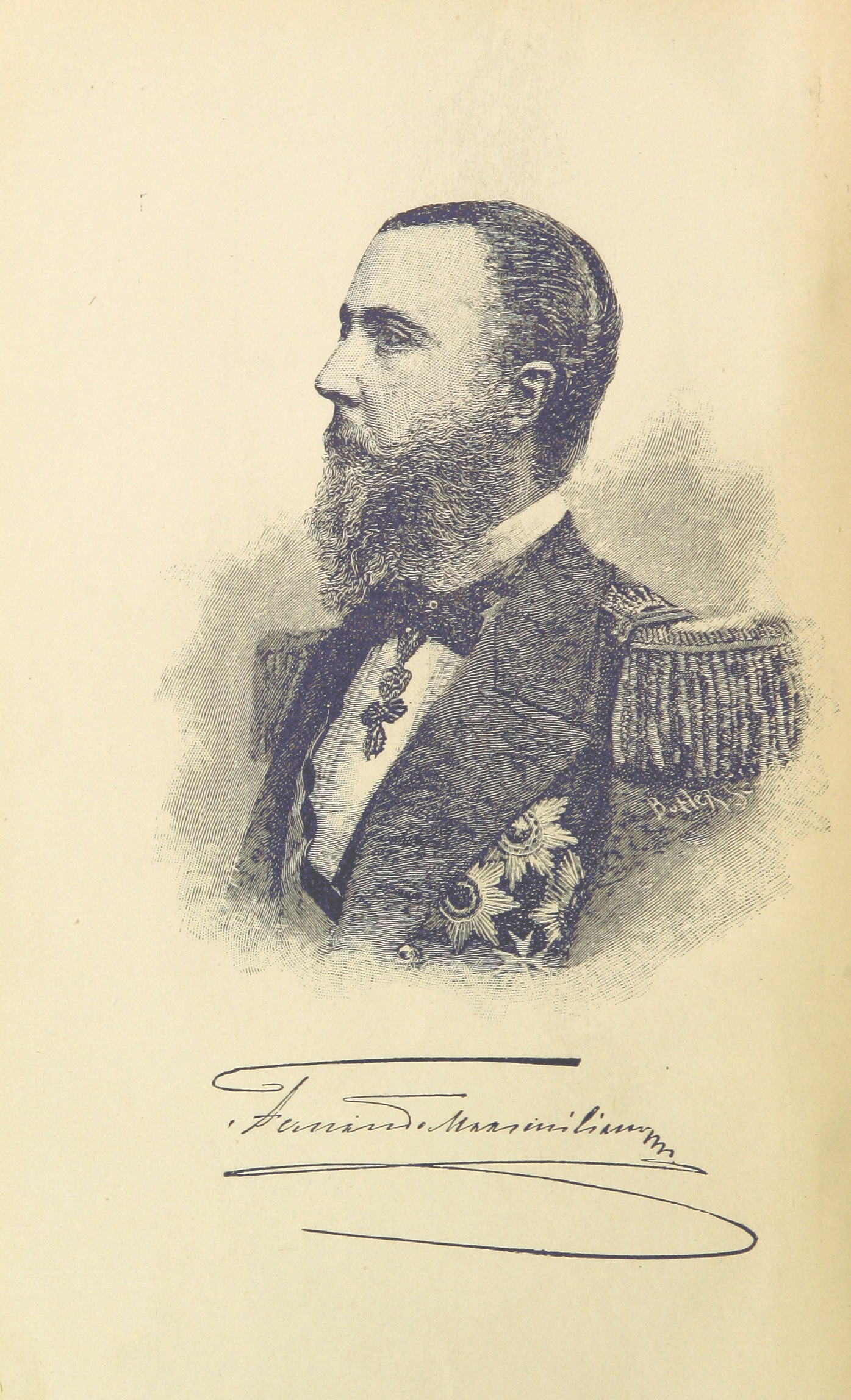 Image taken from: Title: "Notes pour servir à l'histoire de l'empereur Maximilien, d'après ses œuvres, les récits du capitaine ... A. Hans ... et des témoins oculaires de l'exécution. Receuillies [sic] par F. de S.-M" Author: FAUCHER DE SAINT-MAURICE, Narcisse Henri Édouard. Shelfmark: "British Library HMNTS 9771.d.5." Page: 8 Place of Publishing: Quebec Date of Publishing: 1889 Issuance: monographic Identifier: 001204860 Explore: Find this item in the British Library catalogue, 'Explore'. Download the PDF for this book (volume: 0) Image found on book scan 8 (NB not necessarily a page number) Download the OCR-derived text for this volume: (plain text) or (json) Click here to see all the illustrations in this book and click here to browse other illustrations published in books in the same year. Order a higher quality version from here.